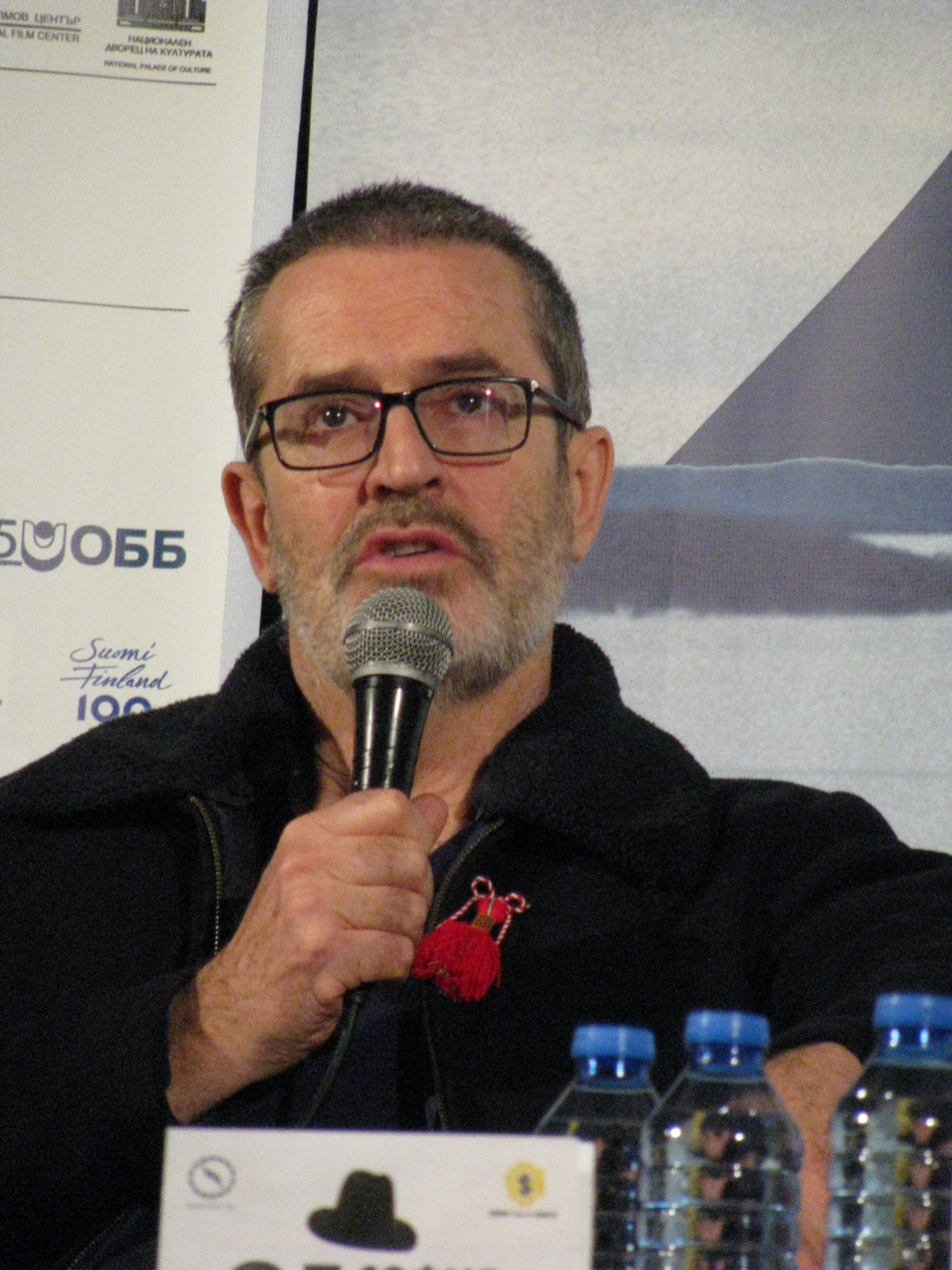 Rupert Everett at Sofia International Film Festival, March 2017.